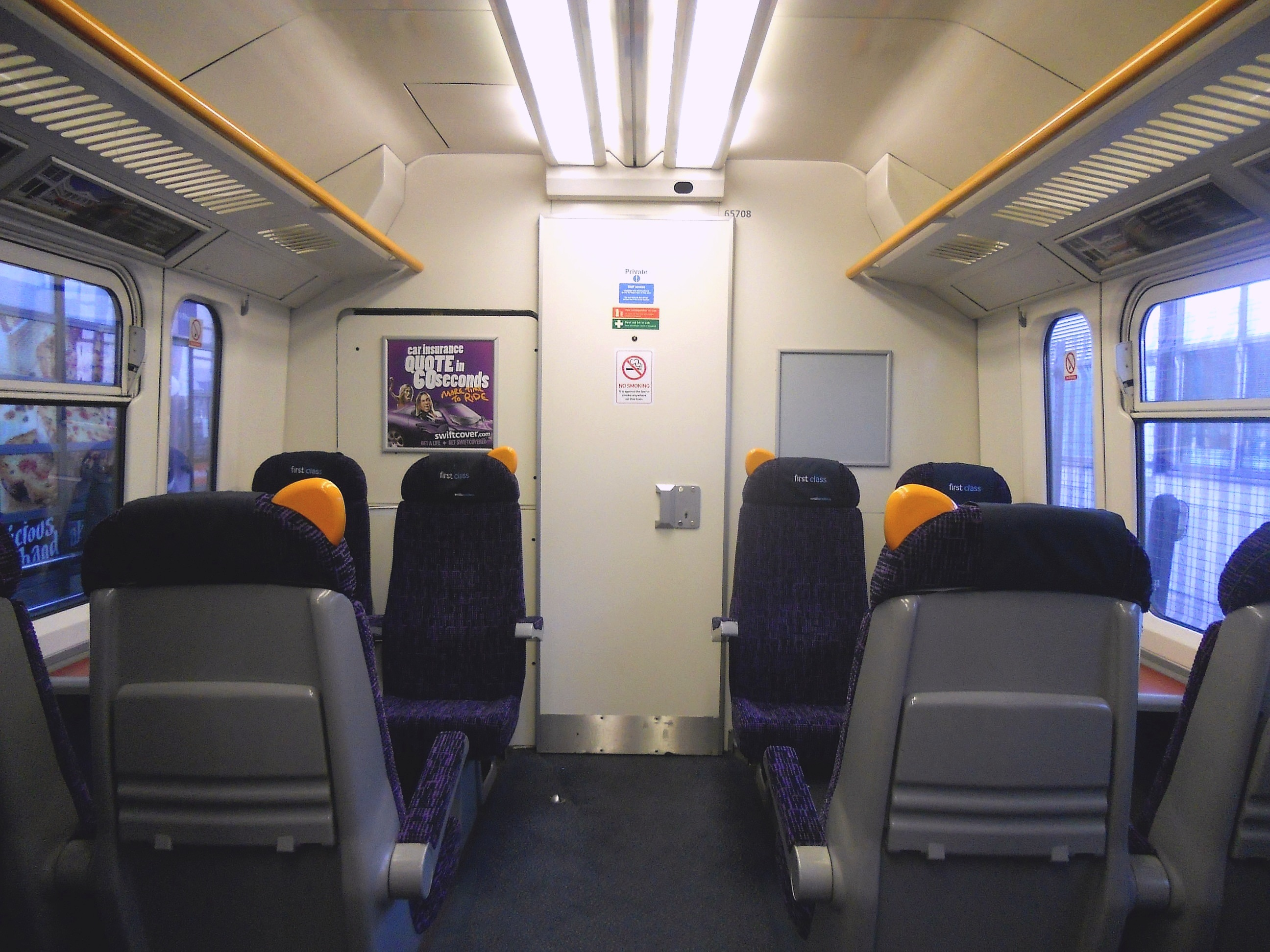 The refreshed First Class cabin from a Southeastern Trains Class 465/9